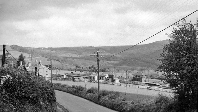 Bickleigh Station (remains). View ENE, across Plym Valley and remains of Bickleigh Station, 18 months after closure; Plymouth (left) - Tavistock - Lydford - Launceston branch, closed completely 31/12/62.